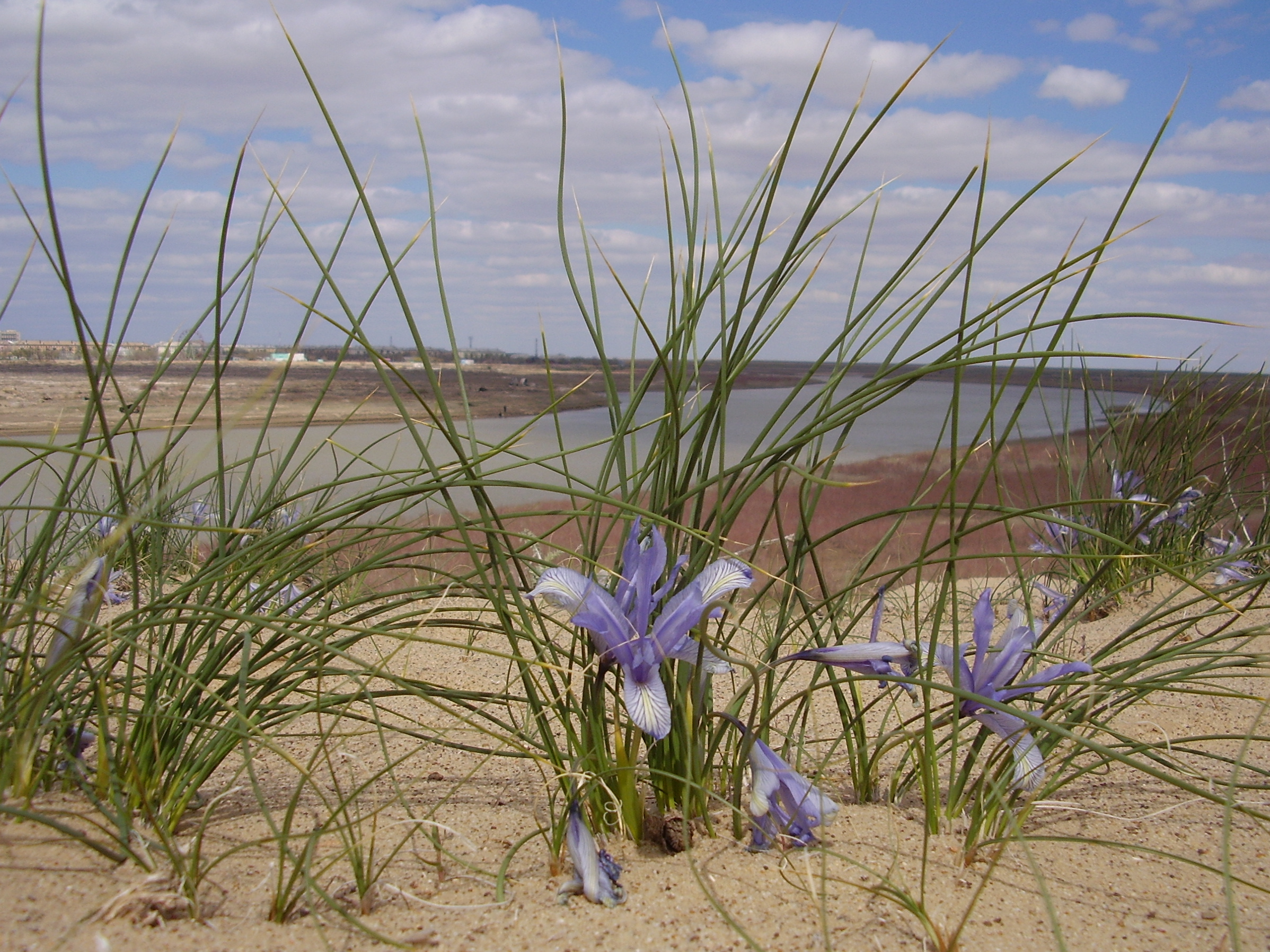 Slender-leaf iris (Iris tenuifolia). Baikonur-town (the left bank of Syr-Darya), Kazakhstan.